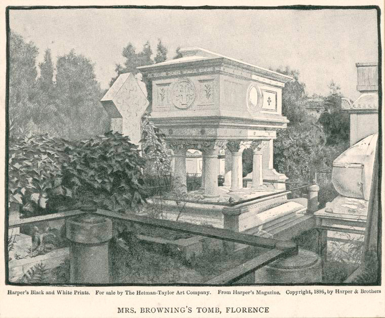 Photo of Elizabeth Barrett Browning's tomb.